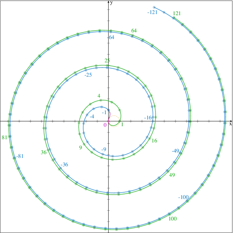 Analytical continuation of the Theodorus spiral, including opposite direction (negative polar radius)/